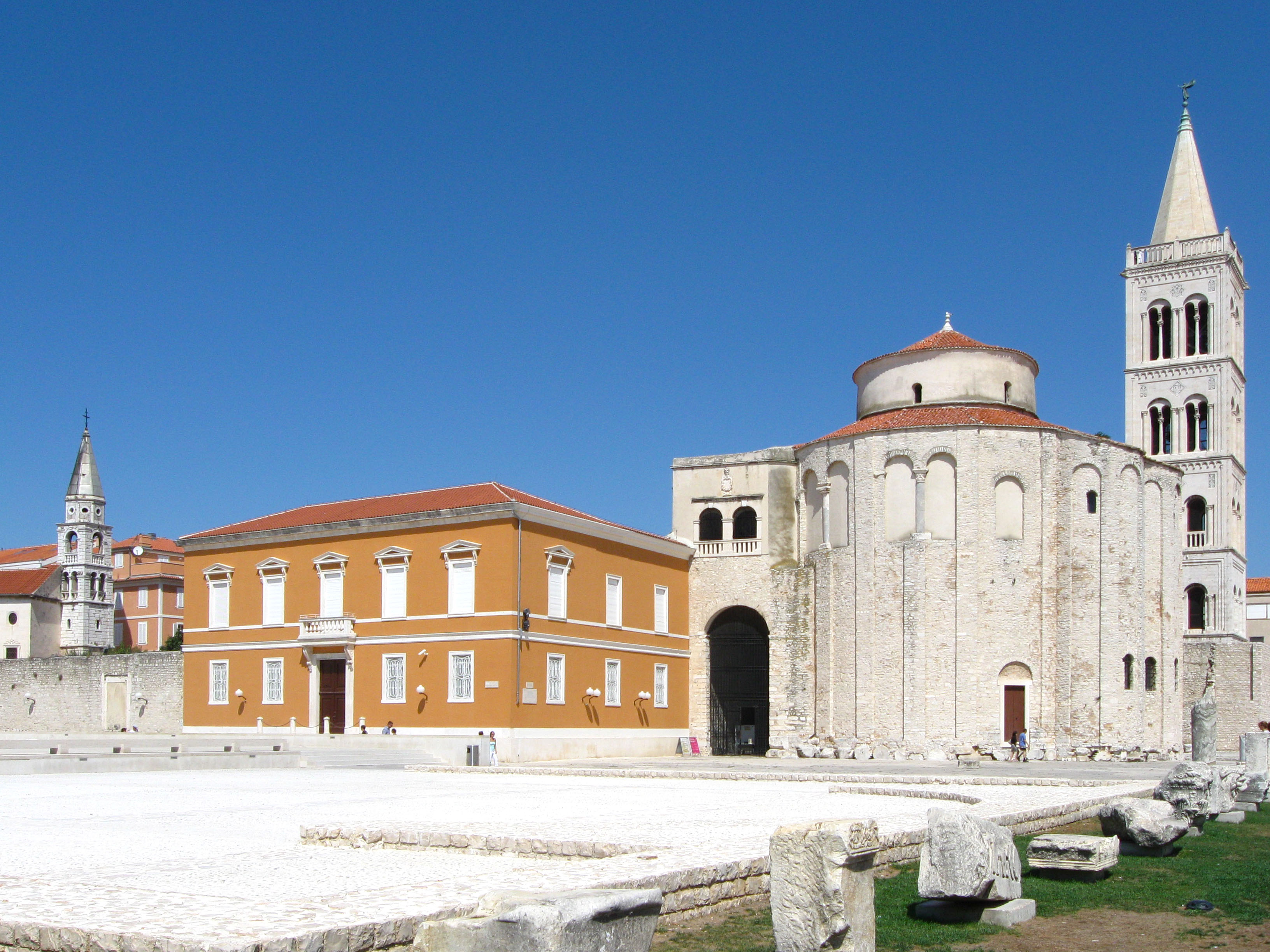 The Roman forum remains in Zadar, Croatia